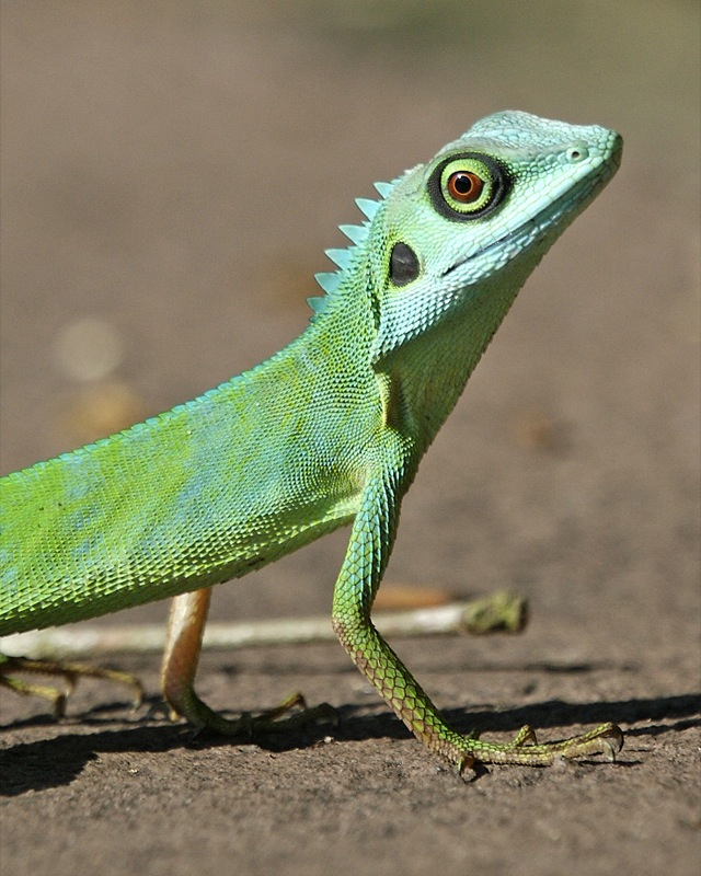 Green Crested Lizard Bronchocela cristatella Lower Pierce Reservoir, Singapore 2nd. March 2009 690V2901